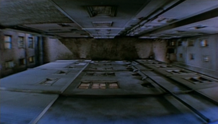 Alfred Hitchcock's "Vertigo" trailer, Vertigo's Effect... Bande-annonce du film "Sueurs froides" ("Vertigo") d'Alfred Hitchcock. Effet de "Travelling compensé".